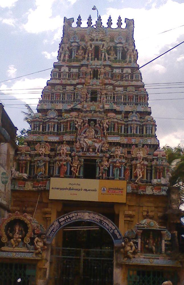 Kumbakonam Kalahastisvarar Temple கும்பகோணம் காளஹஸ்தீஸ்வரர் கோயில்